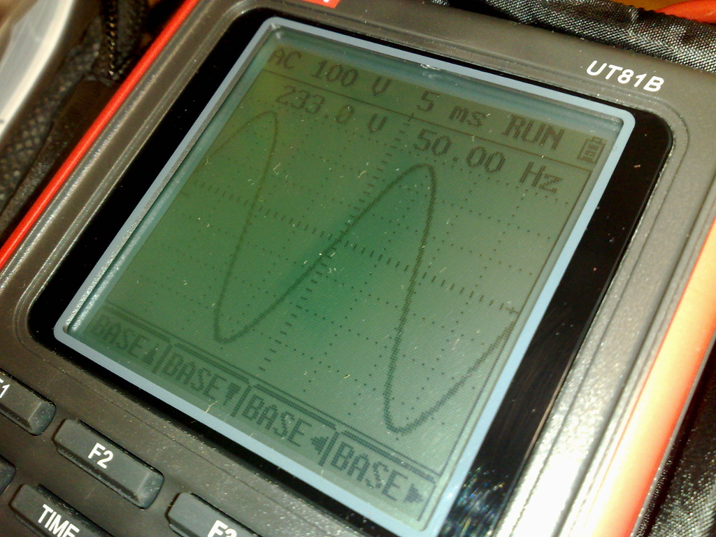 An oscillogram showing the inverter output of an APC Smart-UPS SMT1500I, recorded while this UPS was running off its batteries with a 0% load. Obviously, this confirms a true sine-wave nature of the output. Taken with a UNI-T UT81B handheld digital oscilloscope.